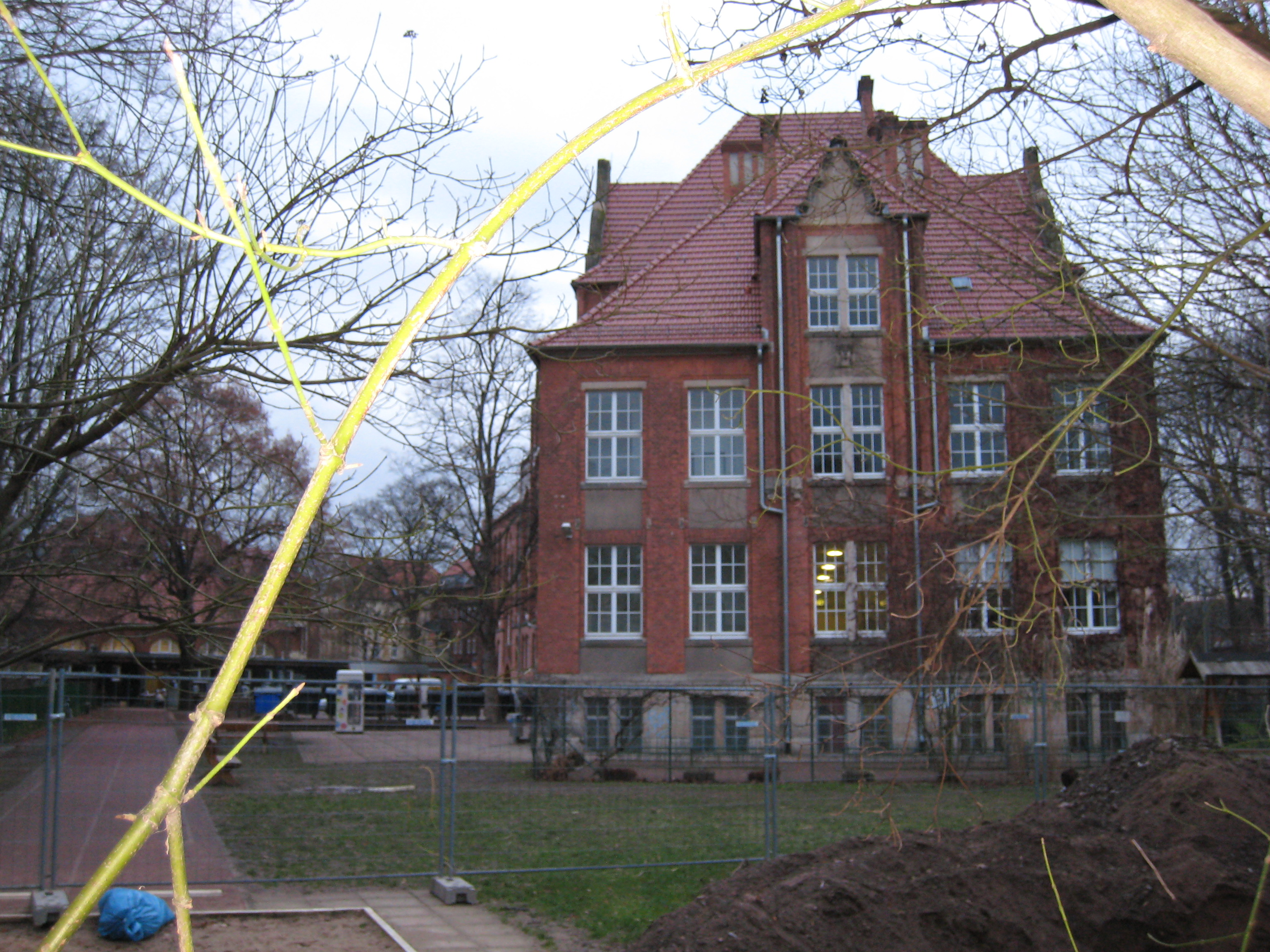 Königin Luise Schule Erfurt 1